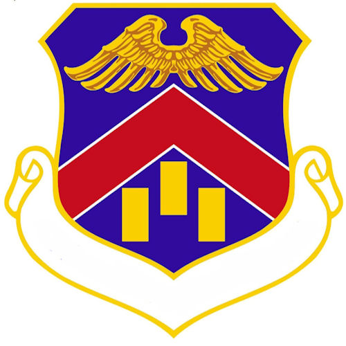 Emblem of the 439th Airlift Wing (used by Operations Group with group designation on scroll) (USAFR) Approved 13 May 1974